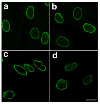 From figure legend: Confocal microscopic analysis of dermal fibroblast in primary culture from a control (a and b) and the subject with HGPS (c and d). Labelling was performed with anti-lamin A/C antibodies. Note the presence of irregularly shaped nuclear envelopes in many of the subject's fibroblasts. Image source/attribution Figure 2B from Paradisi M, McClintock D, Boguslavsky RL, Pedicelli C, Worman HJ, Djabali K (2005) Dermal fibroblasts in Hutchinson-Gilford progeria syndrome with the lamin A G608G mutation have dysmorphic nuclei and are hypersensitive to heat stress. BMC Cell Biology 6:27, Copyright © 2005 Paradisi et al. Licensing This is an Open Access article distributed under the terms of the Creative Commons Attribution License ( which permits unrestricted use, distribution, and reproduction in any medium, provided the original work is properly cited.